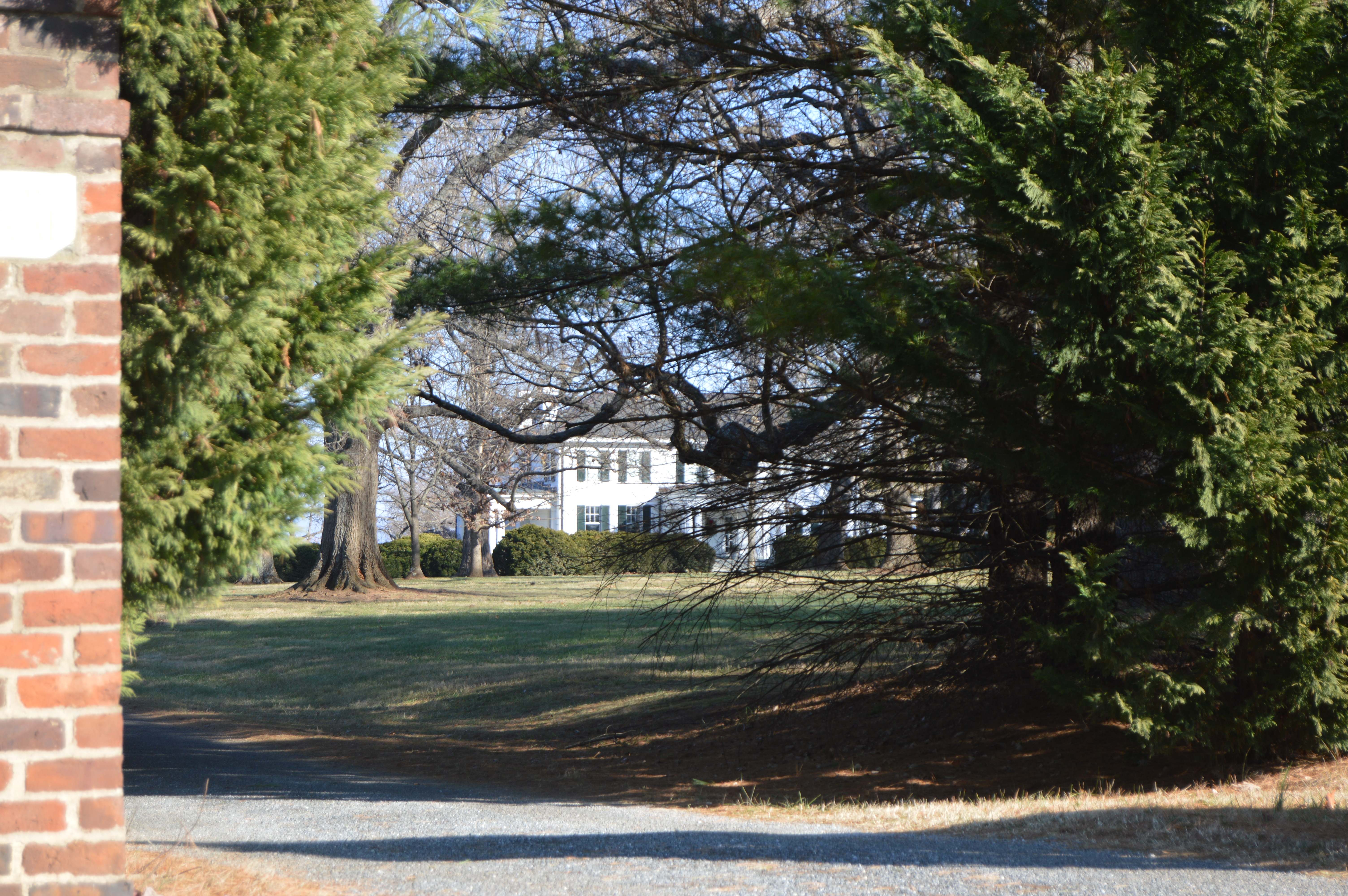 Roadside view of Rothsay, located at 15660 Forest Road (U.S. Route 221) in Forest, Virginia, United States. Built in 1914, it is listed on the National Register of Historic Places.